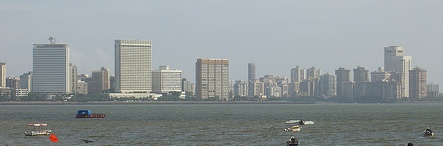 This picture was taken by user:nikkul on july 28, 2006 at Girgaum Chowpatti, Mumbai, India